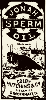 "Jonah Sperm Oil" --- in case they squeak! Nineteenth century whale oil label.